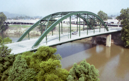 Bridge over the Elk River in Charleston, West Virginia